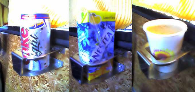 Cup holder installed on a bus. Taken with my poor quality cellphone camera. -- Toytoy 12:53, Nov 18, 2004 (UTC)